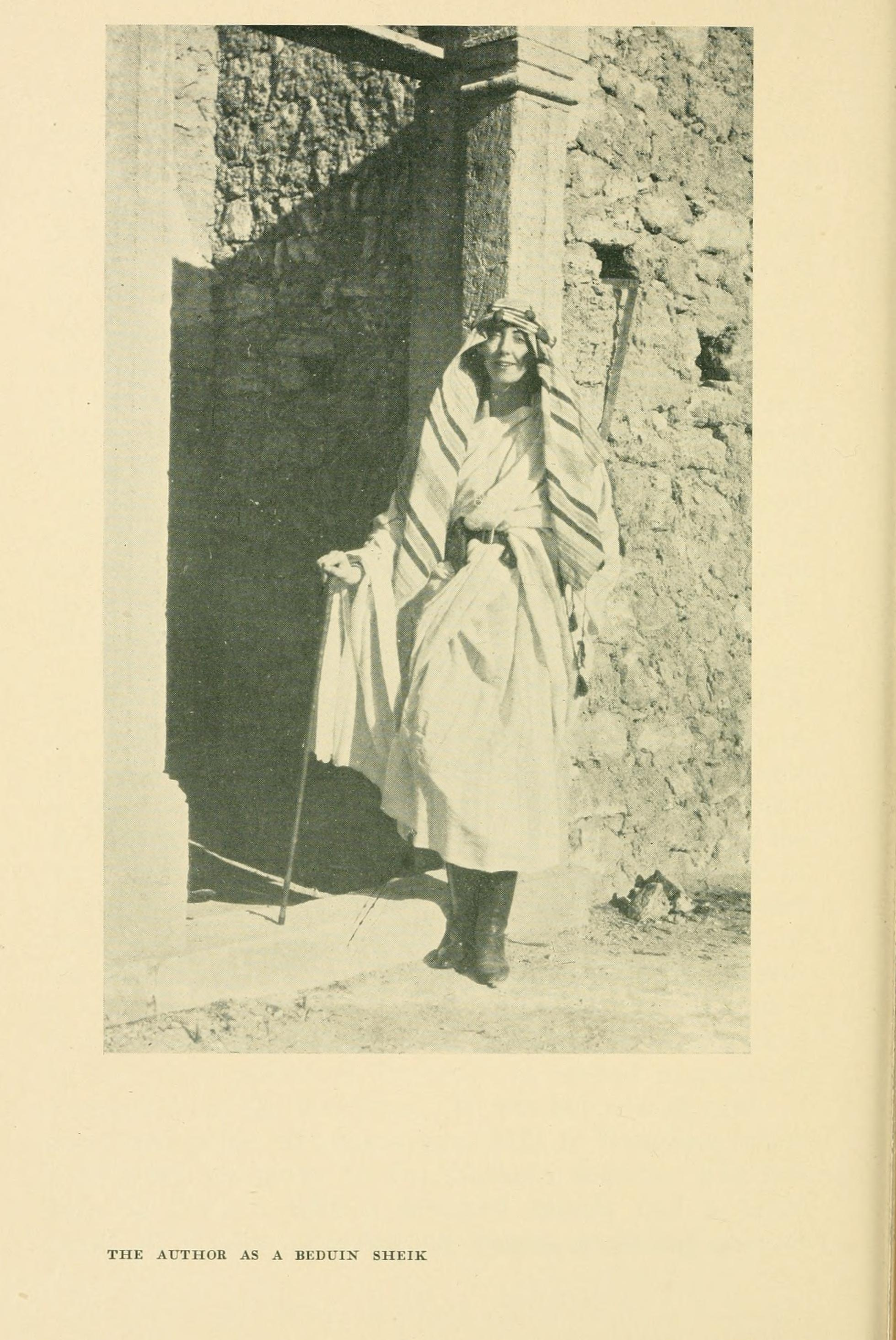 The author as a Bedouin sheik. The secret of the Sahara : Kufara / by Rosita Forbes ; with an introduction by Sir Harry Johnston, with 54 illustrations from photographs by the author, and a map.